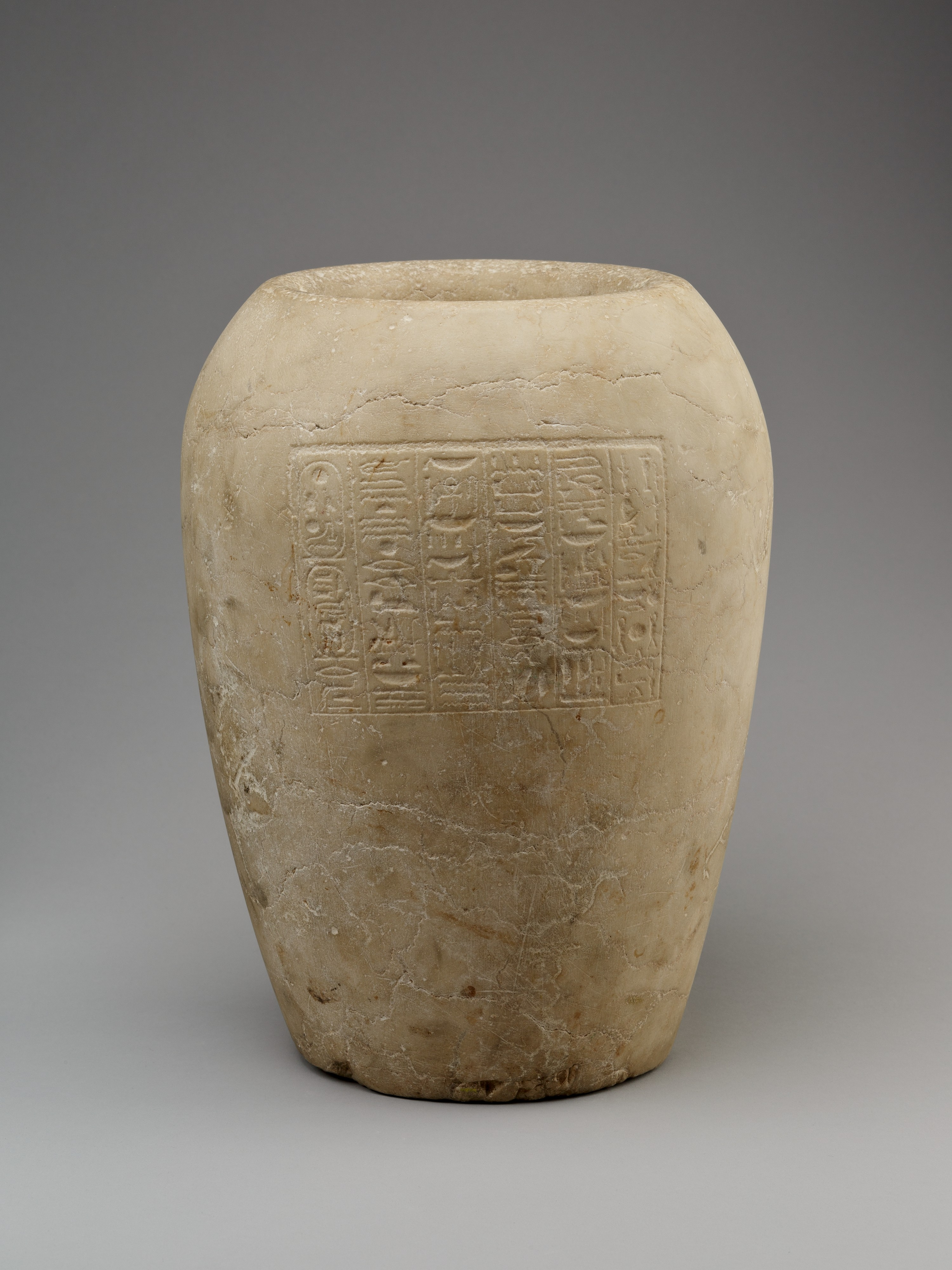 Canopic jar of pharaoh Smendes, founder of the 21st Dynasty. This particular jar was intended to contain the king's liver, since it is inscribed for Qebehsenuef, the falcon-headed deity deputed to the protection of this organ. Calcite alabaster, early 21st Dynasty, Third Intermediate Period. Metropolitan Museum of Art, acc. no. 47.60.